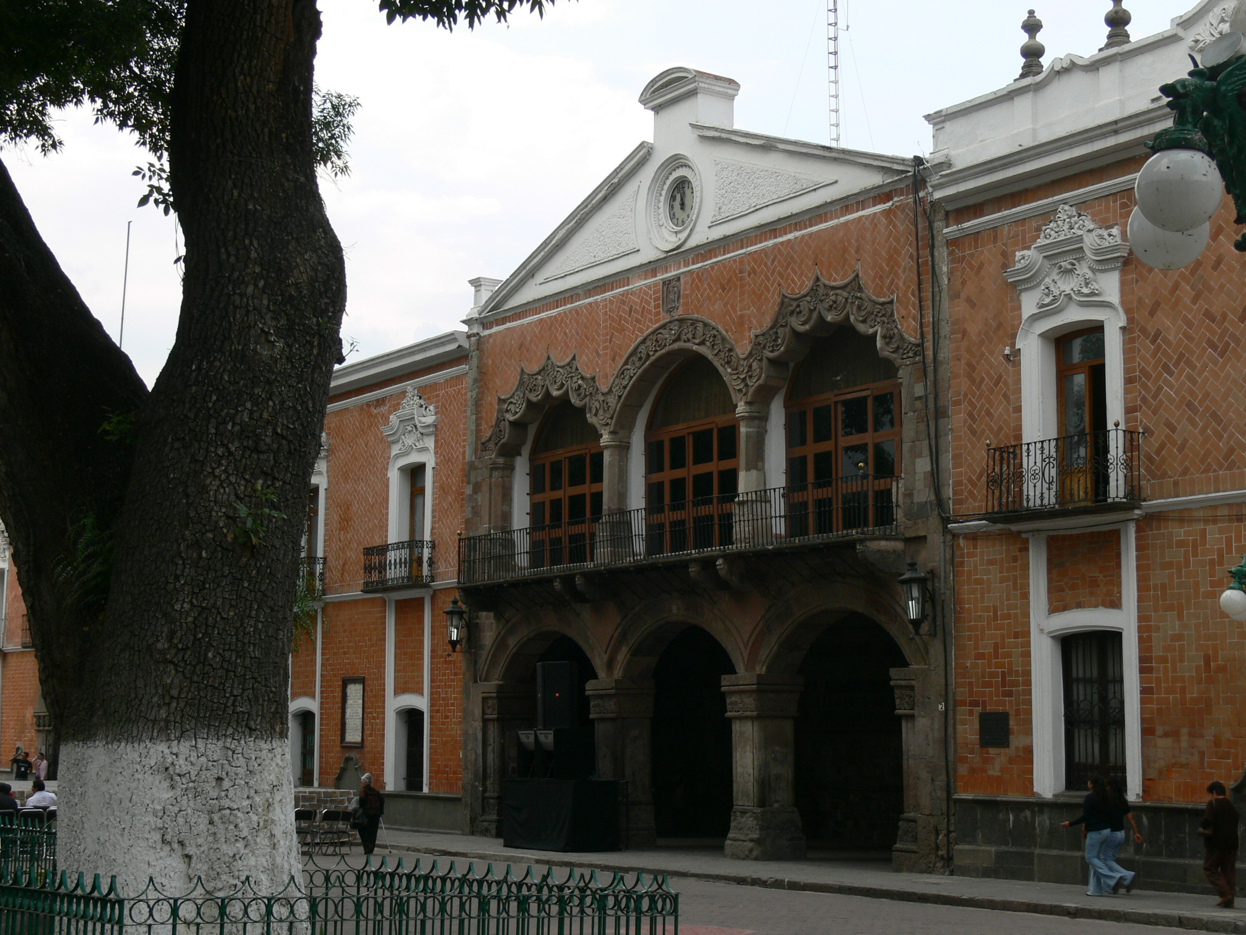 Tlaxcala city. Palacio Municipal ( 1550 ).